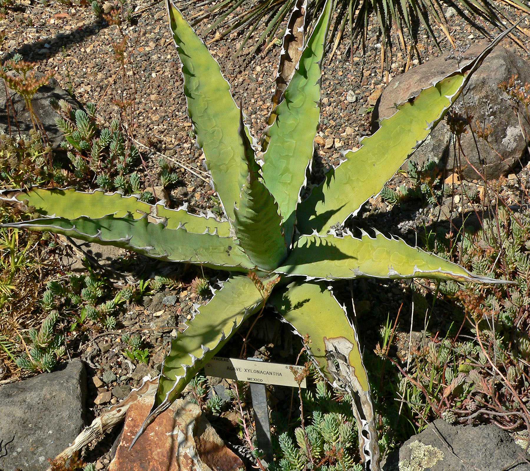 Agave xylonacantha at the University of California Botanical Garden, Berkeley, California